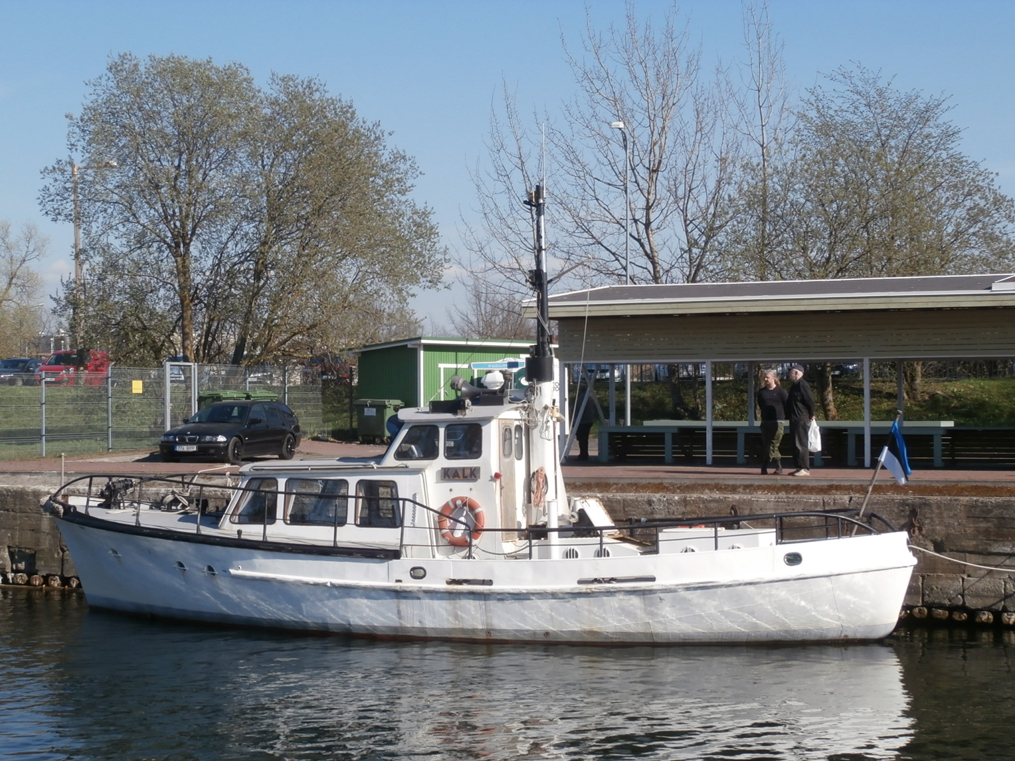 Kalk at quay 1 in Kalasadam, Tallinn 19 May 2017